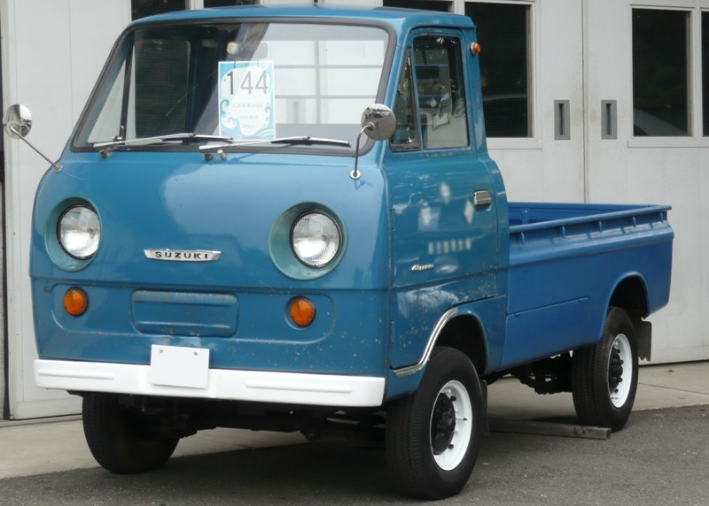 Suzuki Carry.